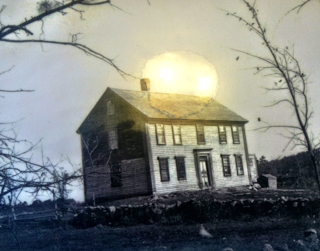 Wheeler-Minot Farmhouse or Thoreau Farm, in the 1870s, Concord, Massachusetts.